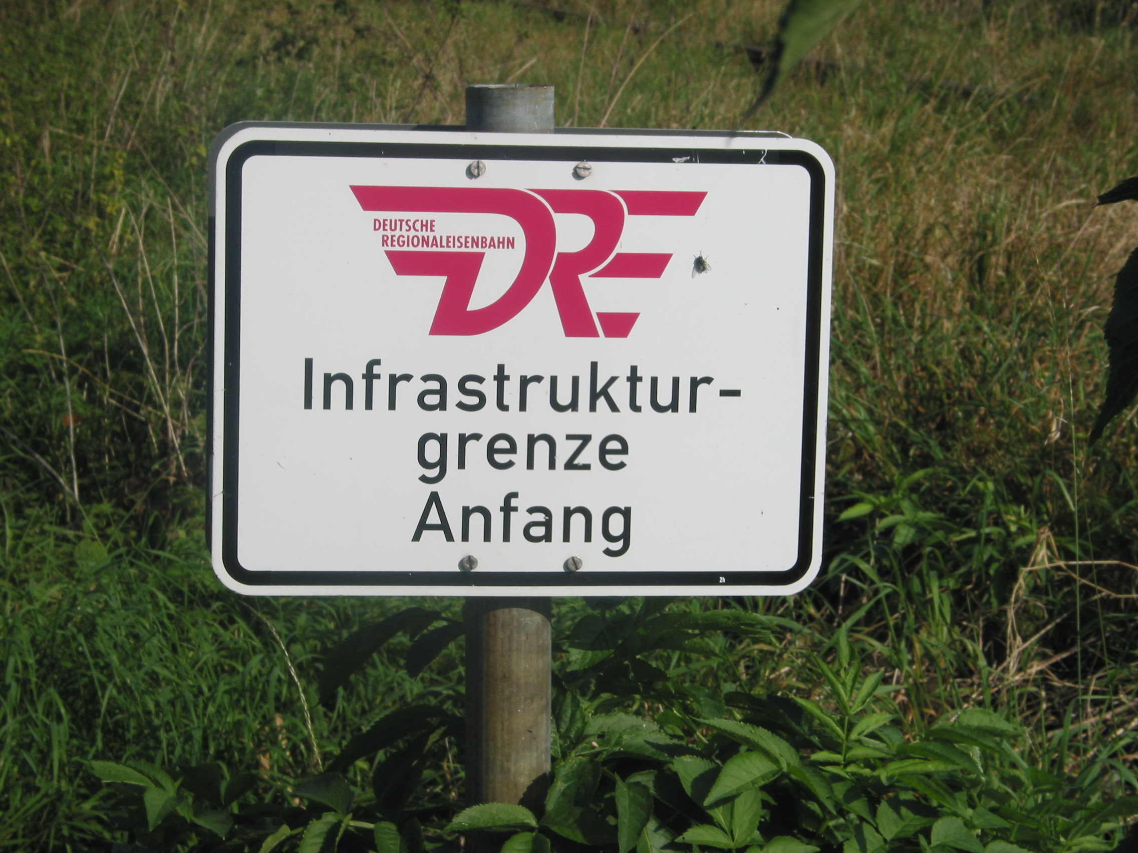 Sign to mark the boundary of the infratructure between the German Railway DB Netz AG and the private railway company Deutsche Regionaleisenbahn GmbH (DRE)